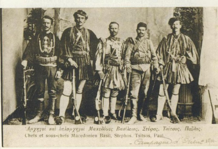 Macedonian Greek Soldiers: Stefos of Monastir (Μοναστήρι Π. Γ. Δ. Μ, modern Bitola, Битола), Tsitsos of Morichove (Morihovo, Μοριχόβο, Cyrillic: Мариово, Mariovo) and Paul of Rakovo.